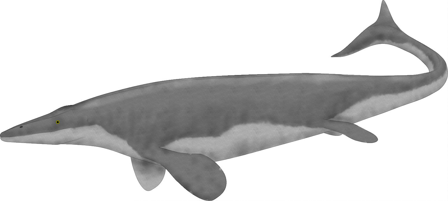 Life restoration of Plesioplatecarpus. Based on File:Platecarpus planifrons Clean.png, File:Platecarpus planifrons UU 2 (1).JPG, and File:Platecarpus planifrons UU 1.JPG.